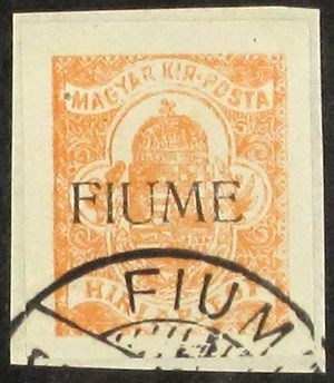 First postage stamp of the Free State of Fiume